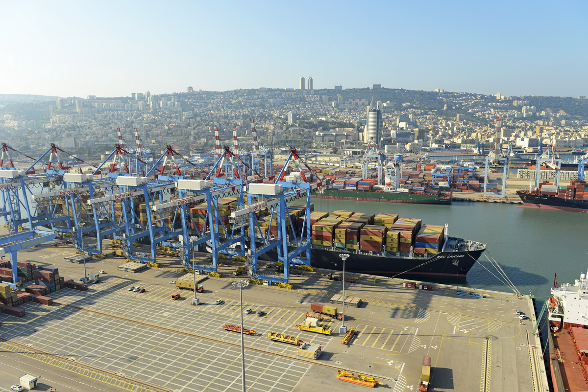 Port of Haifa, Israel with the city of Haifa in the background.